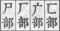 康熙字典 (en: Kangxi Zidian), 1716. Using the original version, display the 17th-18th century characters' shapes (authoritative work). Scanned version available at Here use to show both: variation accross history ; stroke order friendly shape in old printed books.